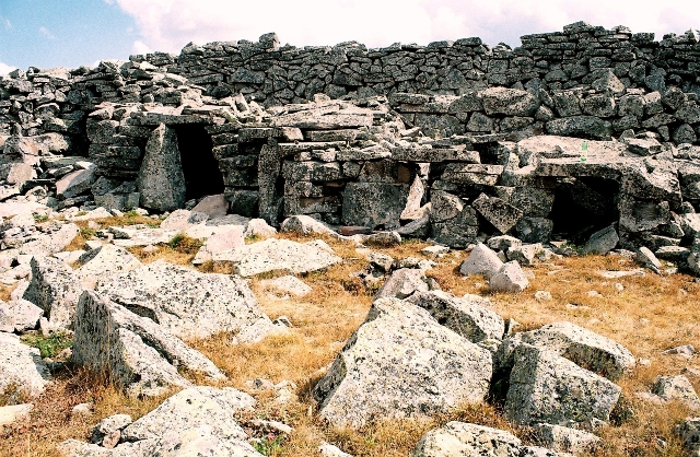 Shaori Fortress